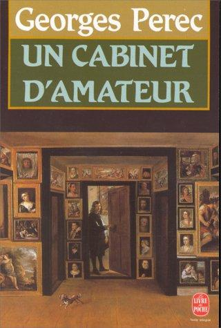 cover painting is a detail photo of one of the 1650s paintings by David Teniers the Younger's views of Archduke Leopold Wilhelm's art collection in Brussels.